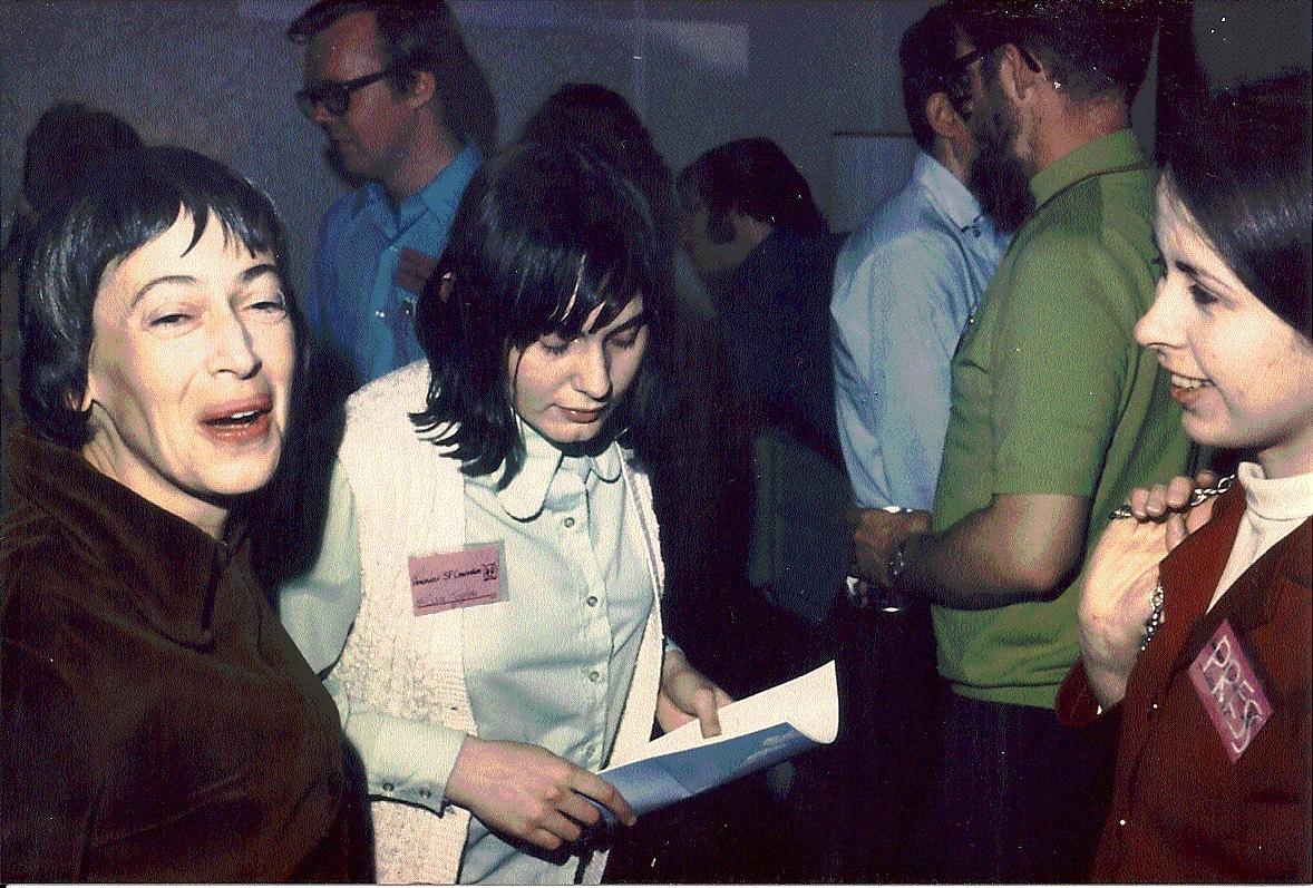 Ursula K. LeGuin in 1971 as Guest of Honour at VCON 1 in Vancouver, BC, Canada.